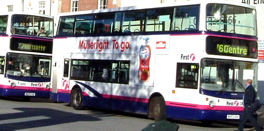 Two buses of First seen here in Bristol - 32001 (W801 PAE) on the left, 32289 (WX53 UKK) on the right. Both are Volvo B7TL double-deckers with Alexander ALX400 bodywork, dating from 2003 and 2003 respectively. Neither fleetnumber appears to be original - 32001 was delivered new to First Bristol as their 9801, before First's national numbering was implemented, while 32289 appears to have been delivered new to First Cityline with the national number 31754.